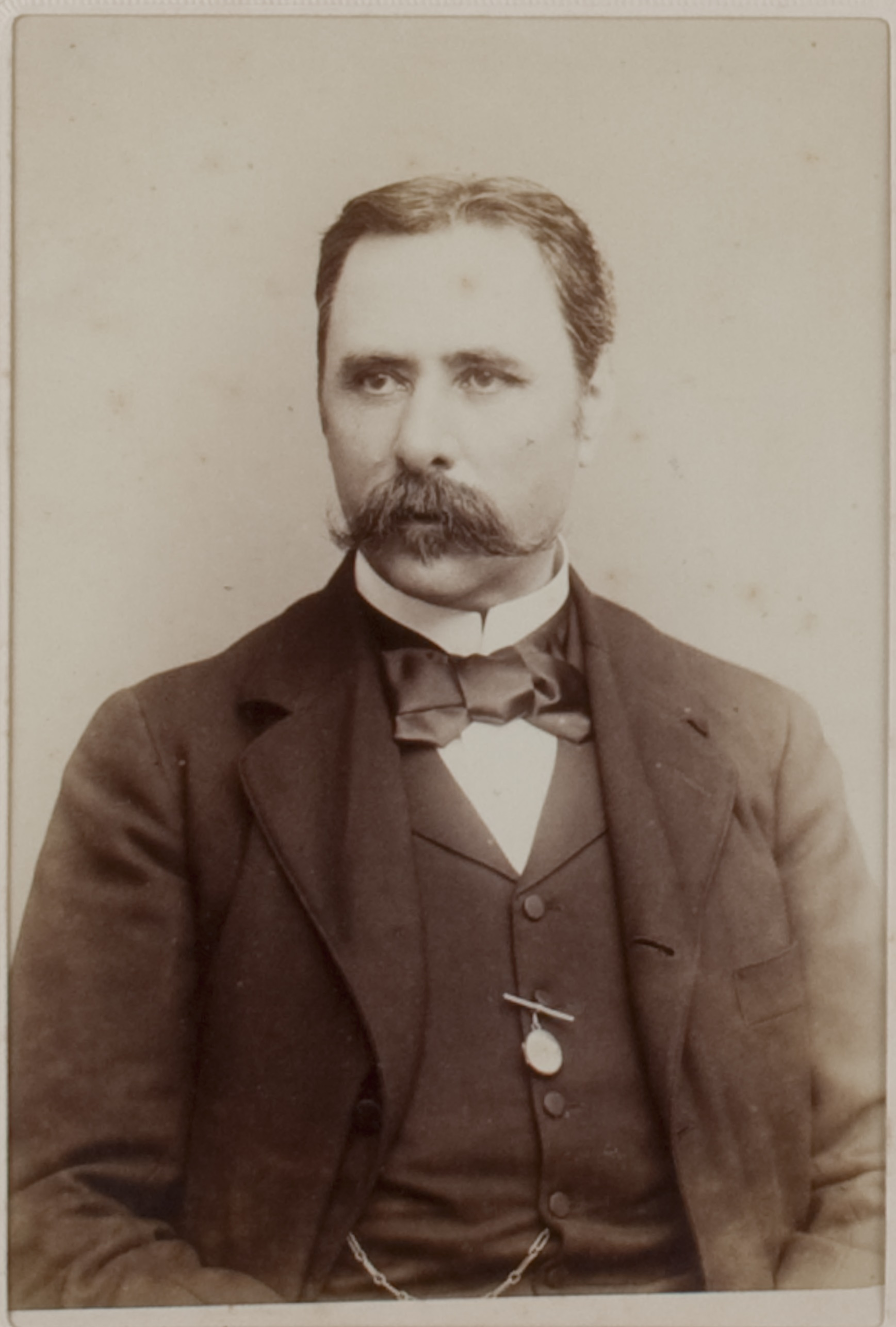 Ludovic Trarieux, photographie reproduite dans un album de portraits photographiques de personnages politiques, écrivains ou magistrats en relation avec l'Affaire Dreyfus.